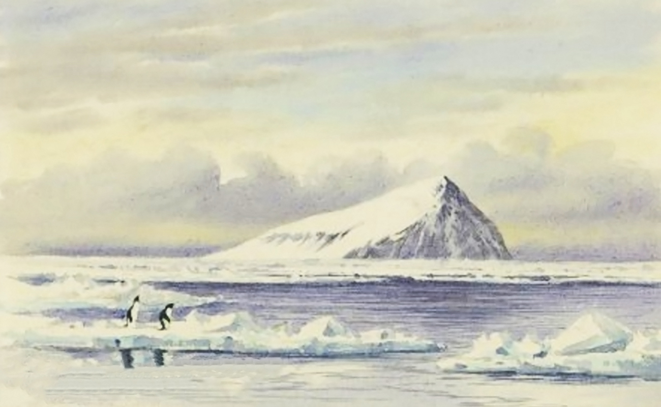 Watercolour by Edward A. Wilson. Beaufort Island. Ross Sea, Antarctica. 4 January 1911